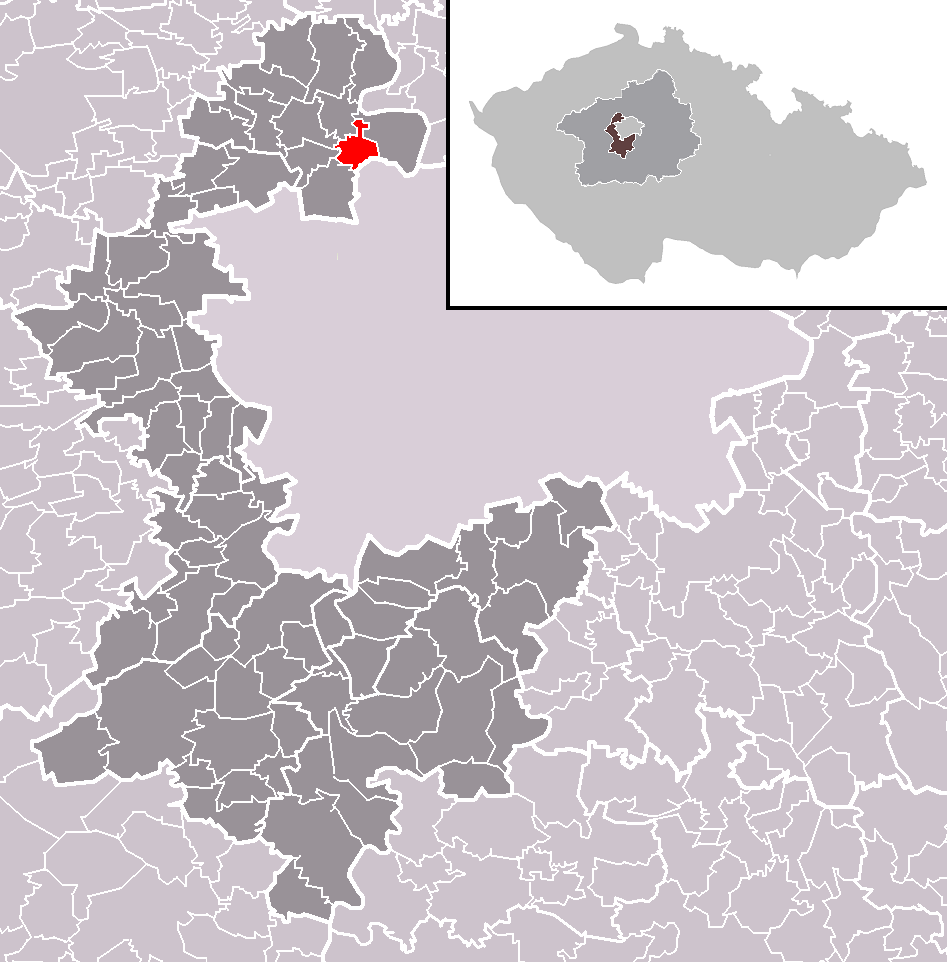 Location of Únětice municipality within Prague-West District and administrative area of Černošice as a Municipality with Extended Competence.